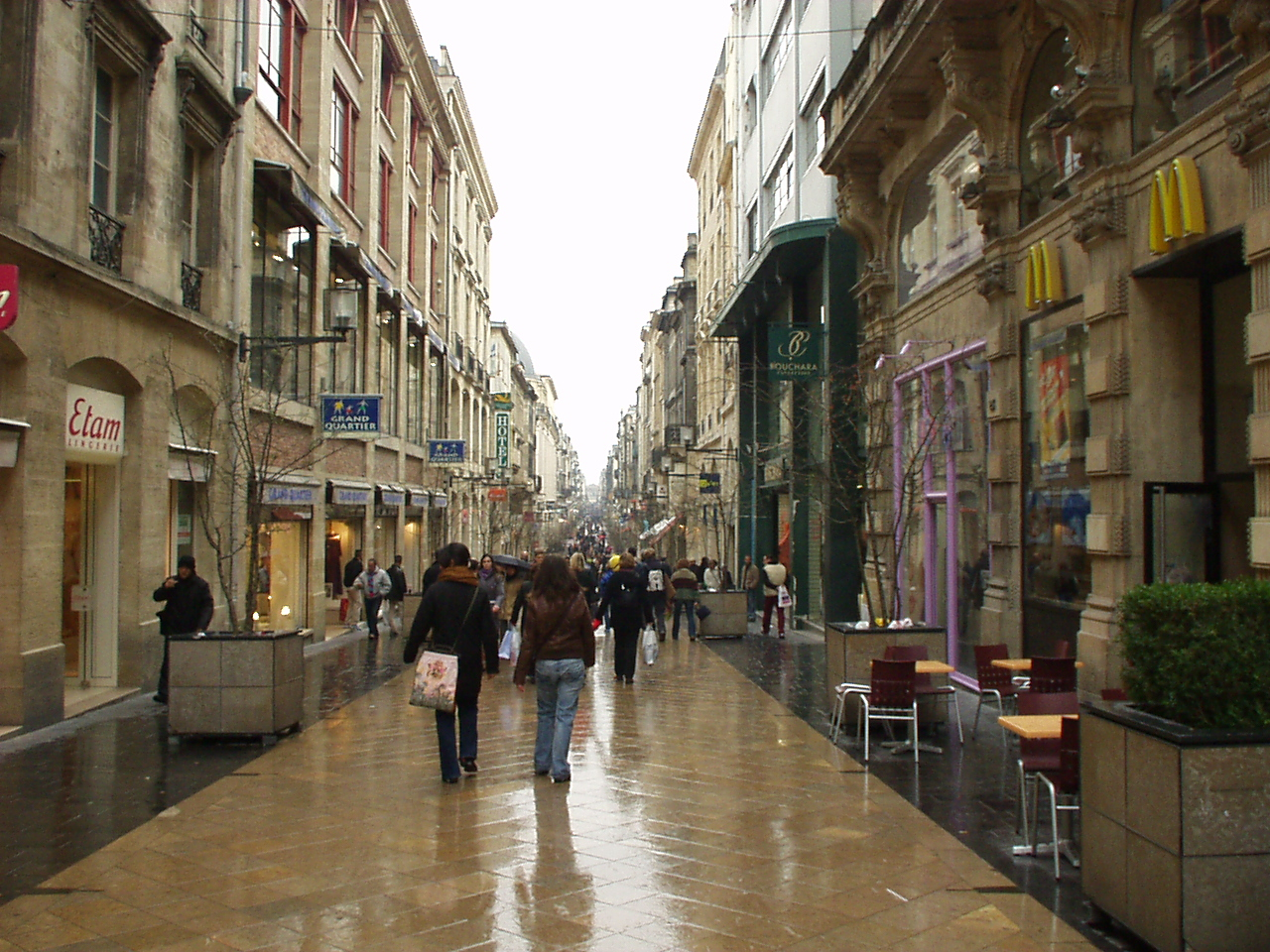 Rue Sainte-Catherine in Bordeaux, France at 1.2 kilometers is the longest shopping street in Europe.